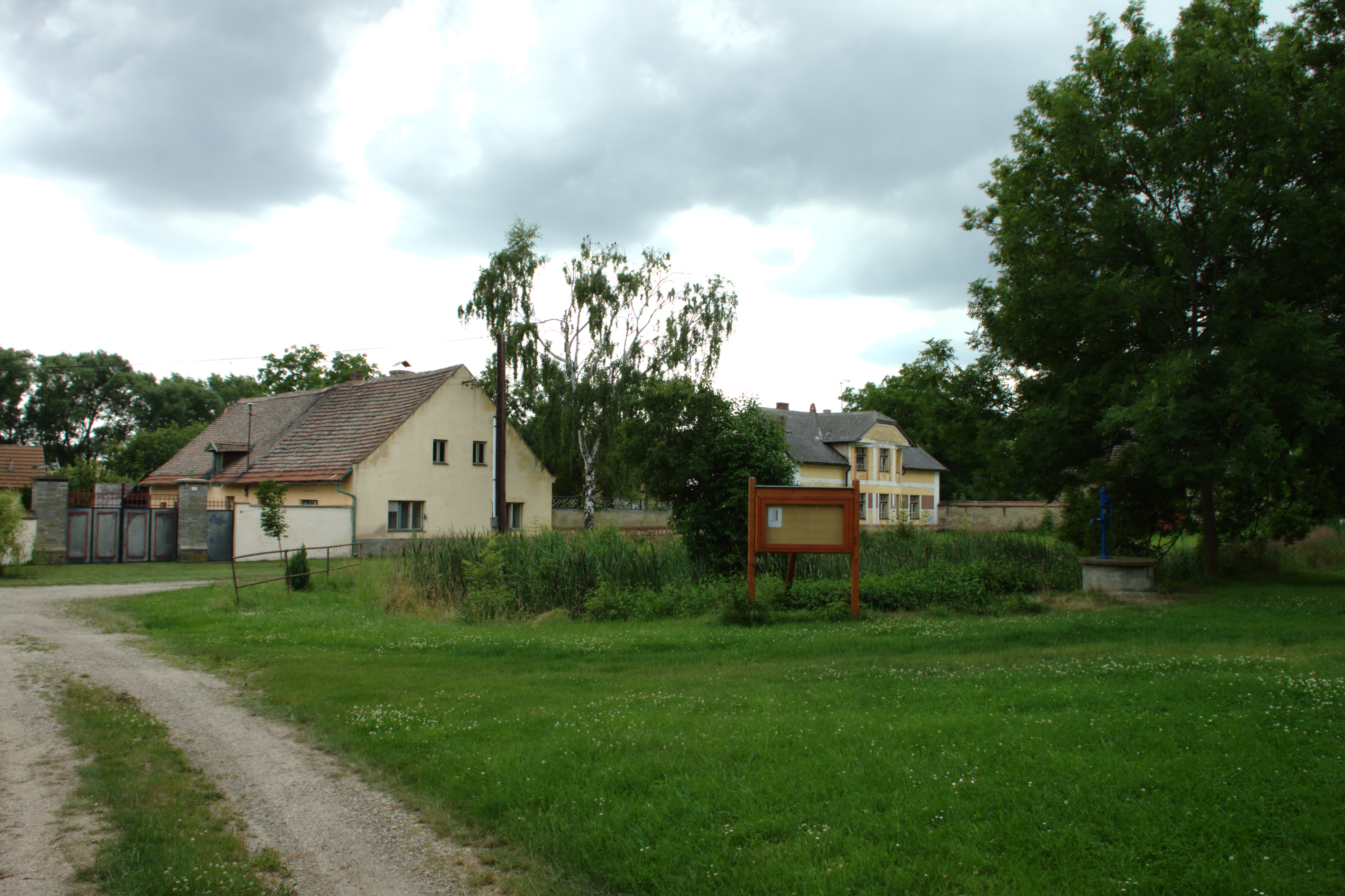 A meadow in the central part of the town of Dolní Kamenice, Central Bohemian Region, CZ